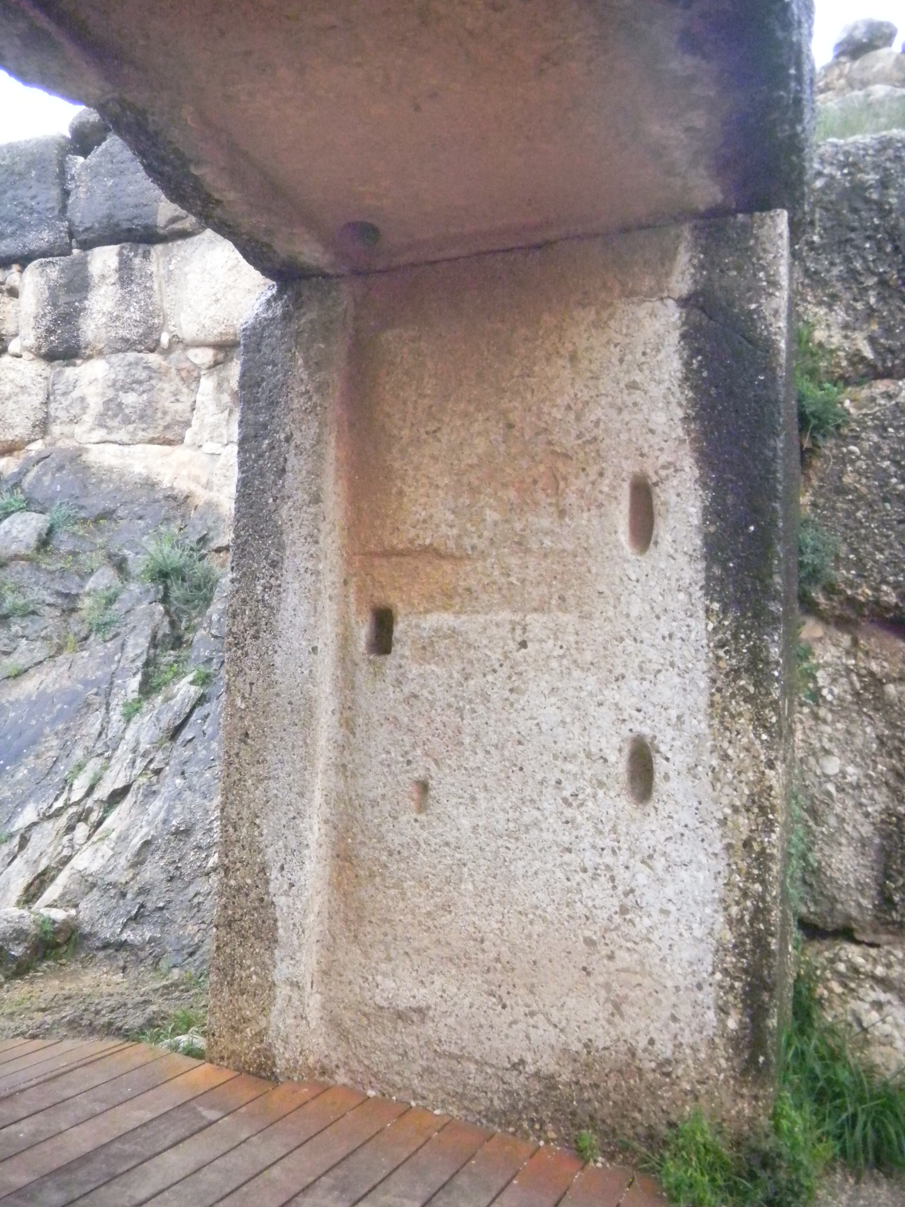 North door jamb of the Lion Gate at Mycenae.